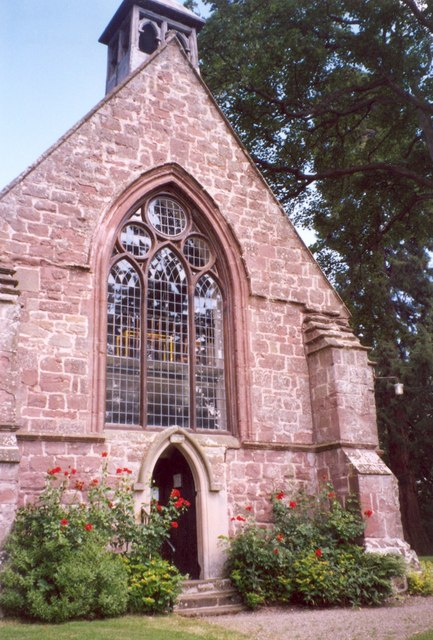 Longnor Church This is a view of the west end of the church. Longnor became a parish in 1739.